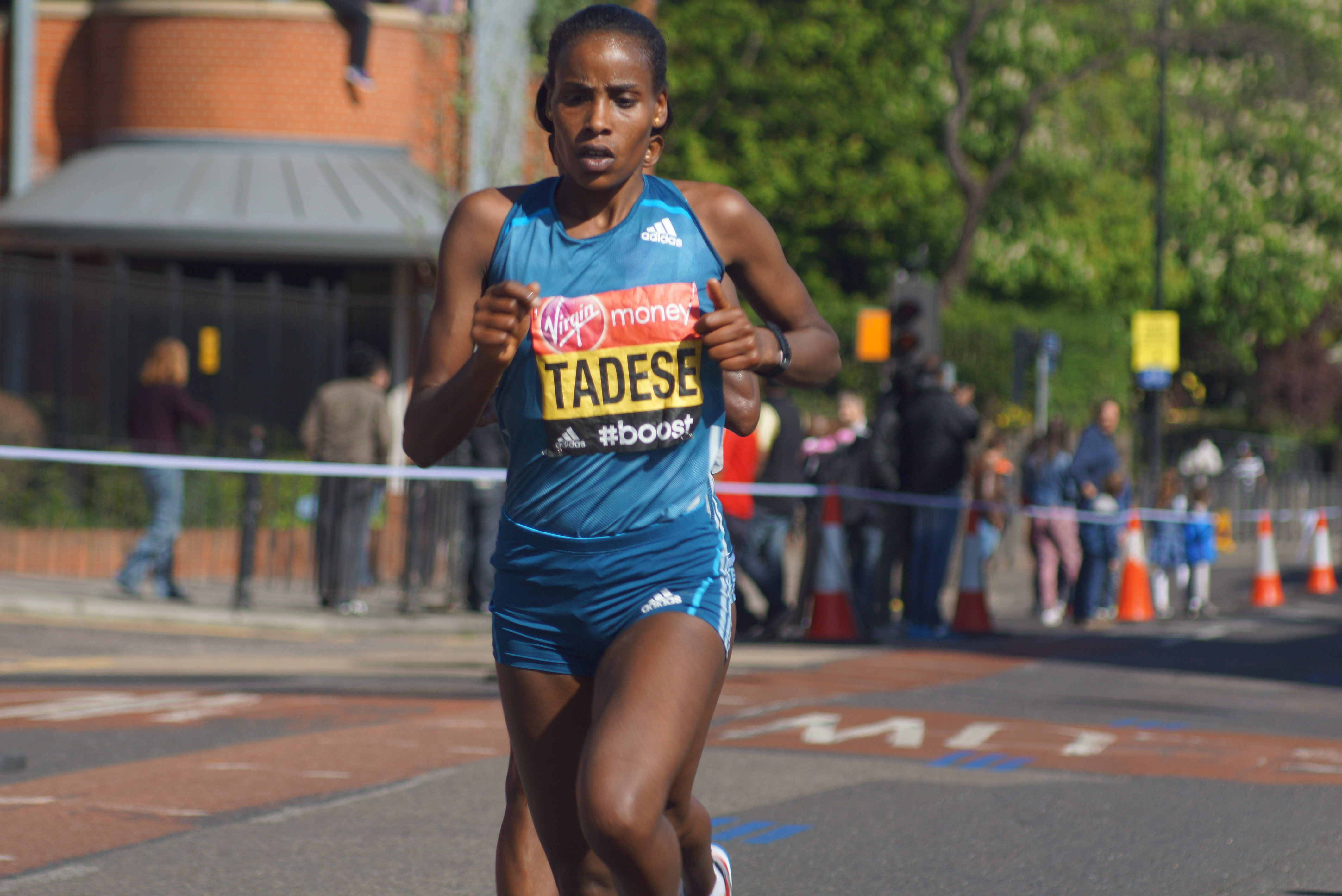 Photograph taken by Julian Mason on 13th April 2014 during the London Marathon. Location Westferry Road on the Isle of Dogs close to Arnhem Place and just before Millwall Outer Dock.